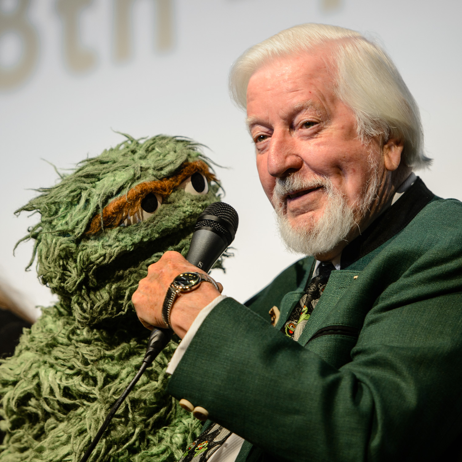 photo by Neil Grabowsky